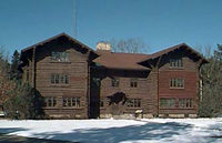 Chippewa National Forest Supervisor's Office, 200 Ash Ave NW, Cass Lake, Minnesota, USA. Viewed from the east.